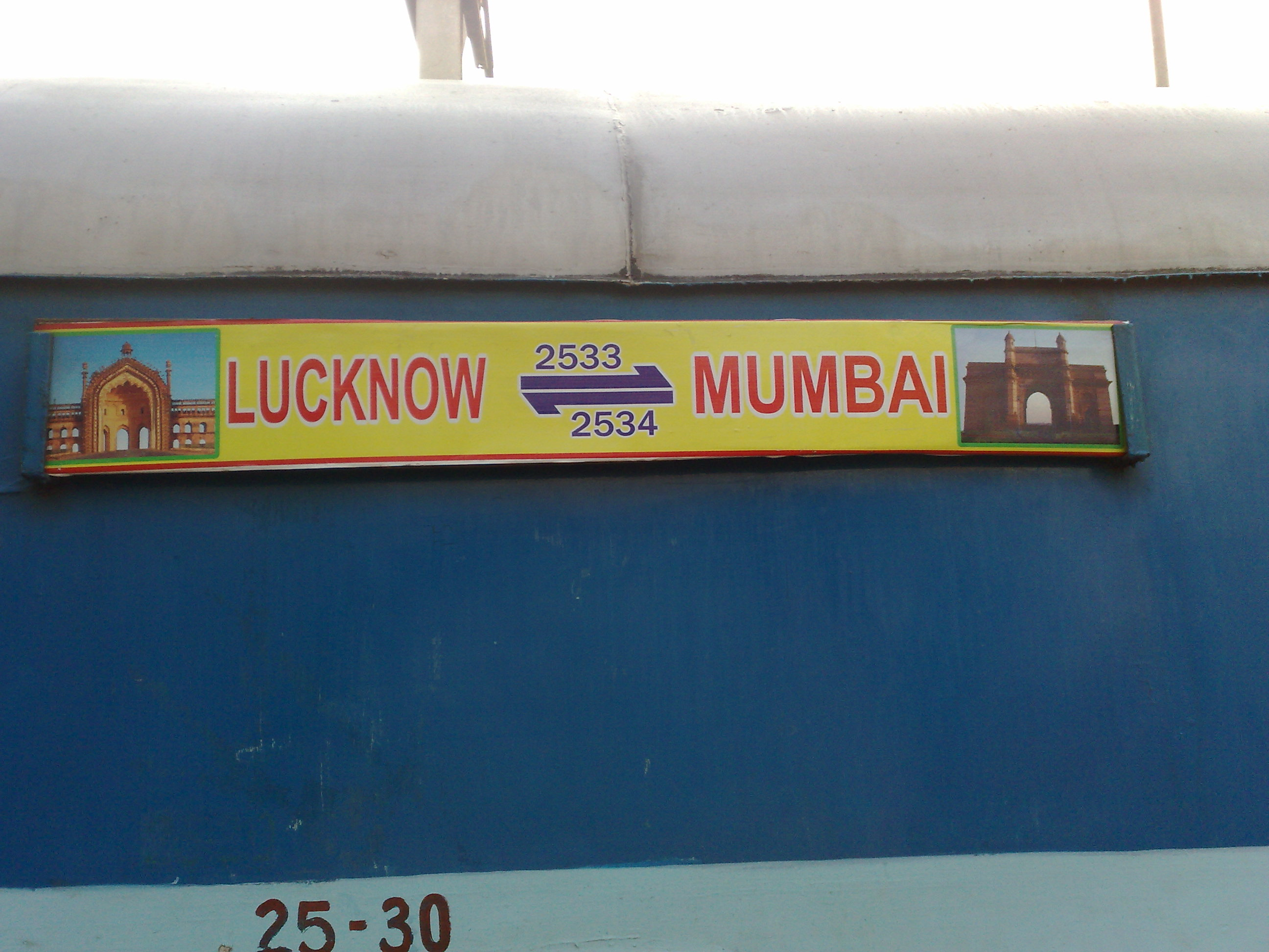 Coachboard - 12534 Pushpak Express